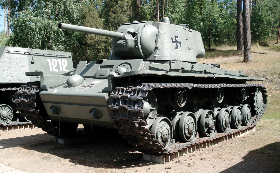 Soviet KV-1 tank manufactured in 1942 and captured by the Finns in April 1942, displayed in Finnish Tank Museum (Panssarimuseo) in Parola. N.B. In Finland the swastika was used as the official national marking of the Finnish Defence Forces between 1918 and 1945 and also of the Finnish Air Force, anti-aircraft troops as a part of the air force, and tank troops at that time. Photo taken on July 14, 2006. Source: Photo by me, User:Balcer.